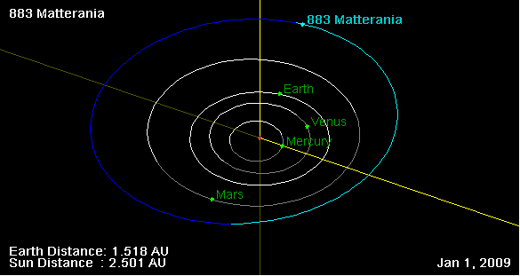 883 Matterania orbit, and his position on 01 Jan 2009 (NASA Orbit Viewer applet)